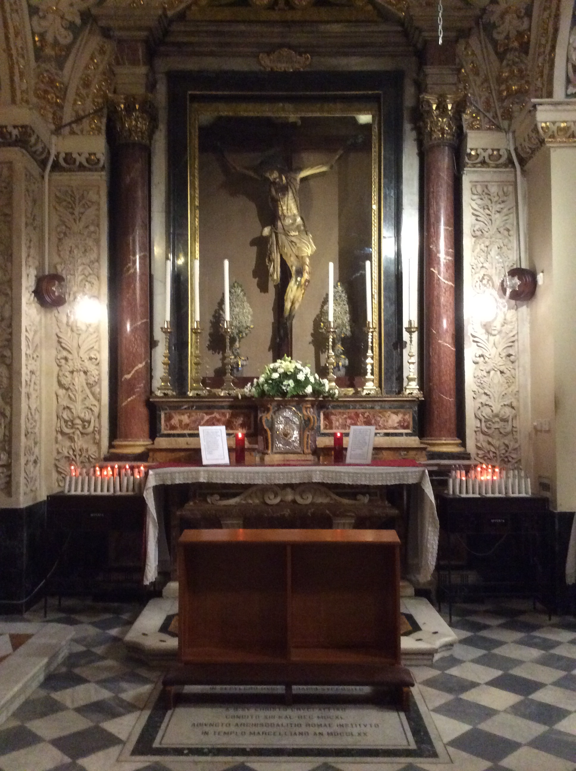 Ta Giezu Church